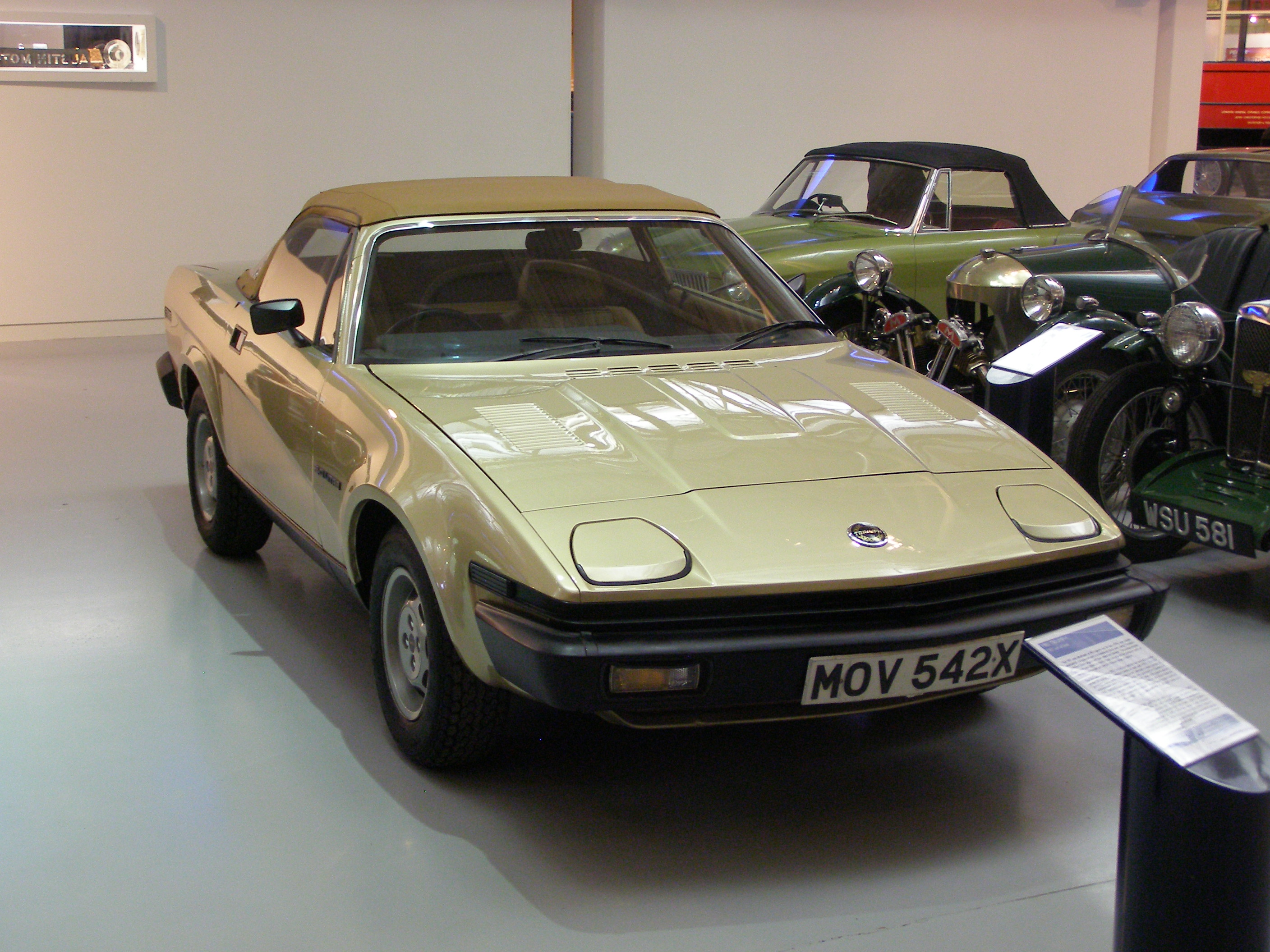 Triumph TR7 MOV542X, the last TR7 built, on display at the Heritage Motor Museum, Gaydon, England